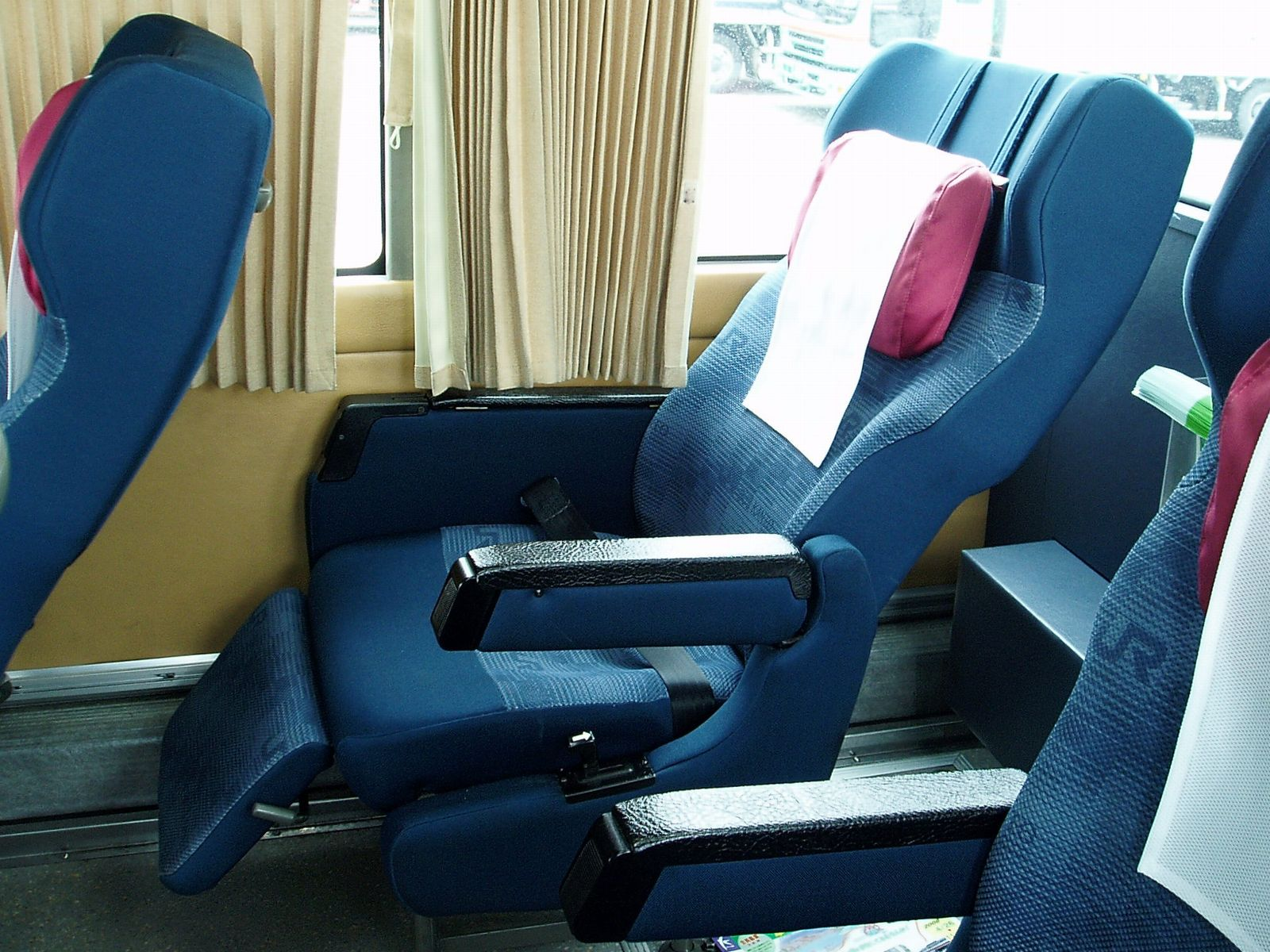 "G-seat" inside of "Premium Coach" JR Bus Kanto H651-04420